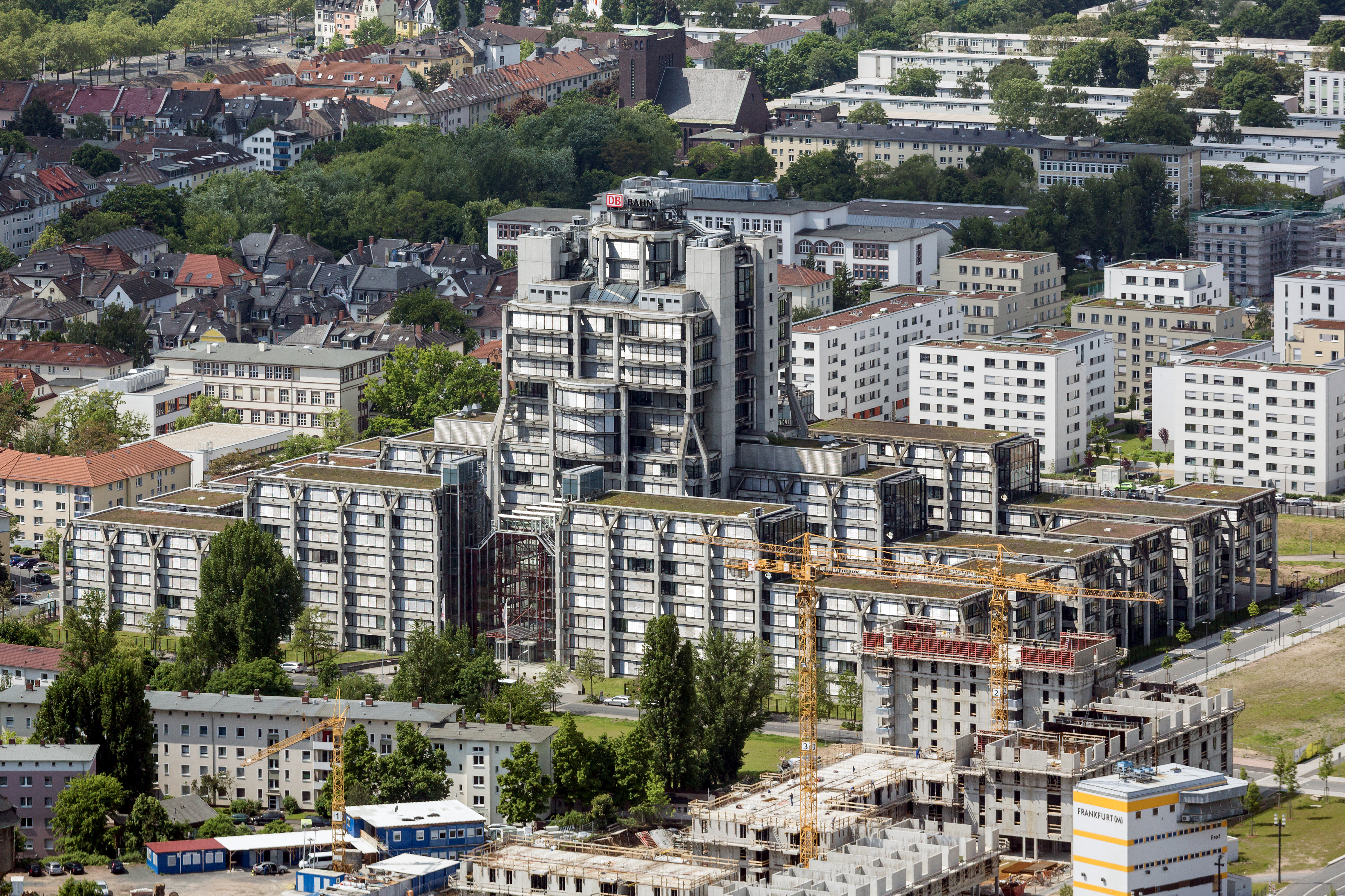 Frankfurt on the Main: Hauptverwaltung Deutsche Bahn AG (Deutsche Bahn AG Headquarters) as seen from the Messeturm (Fair Tower)